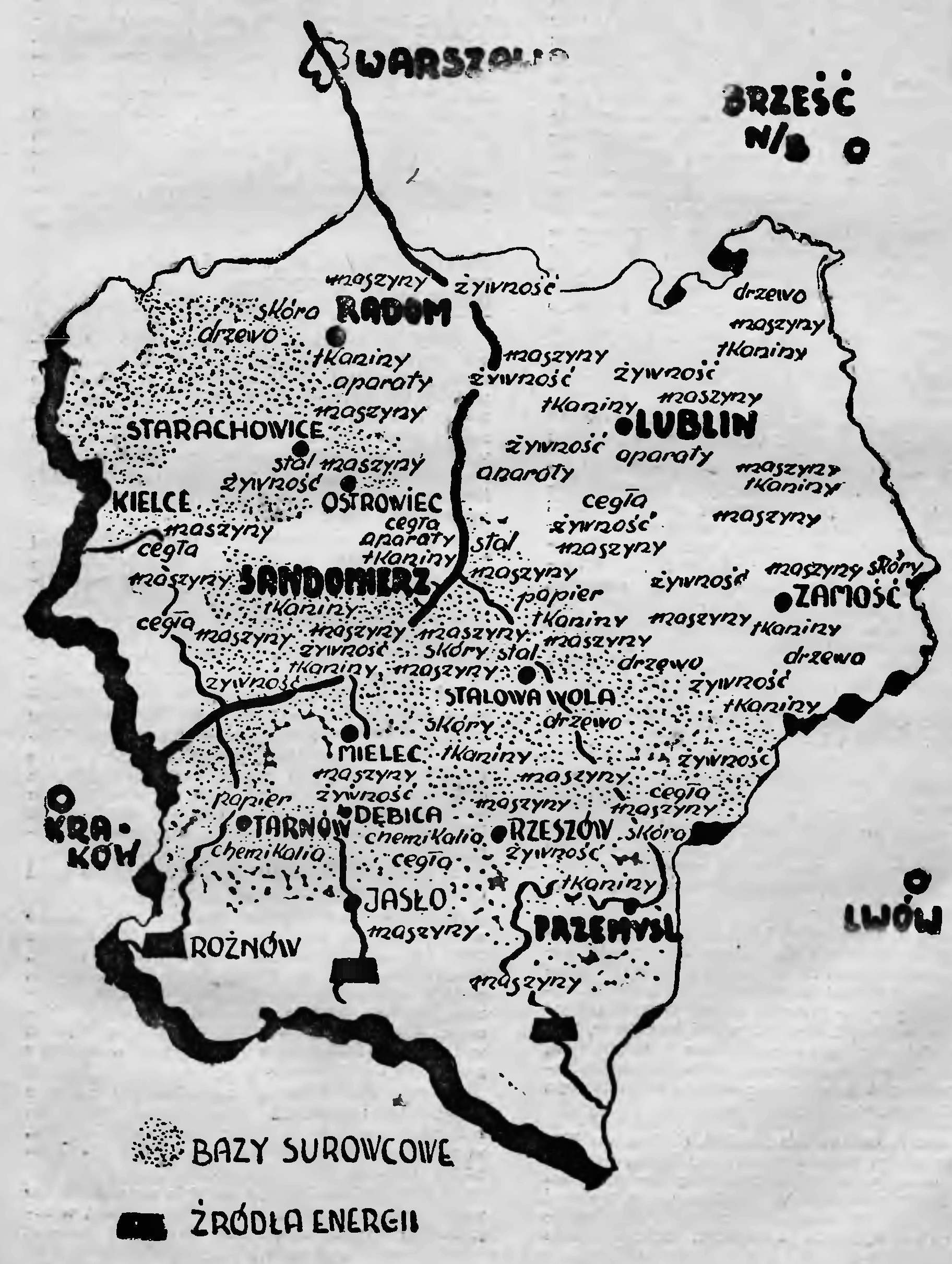 Polish COP's map in Ilustrowany Kalendarz Słowa Pomorskiego 1939.